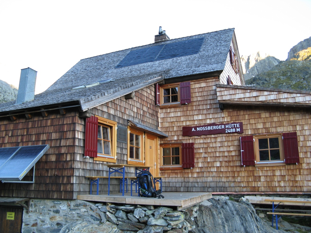 Adolf Nossberger Hut